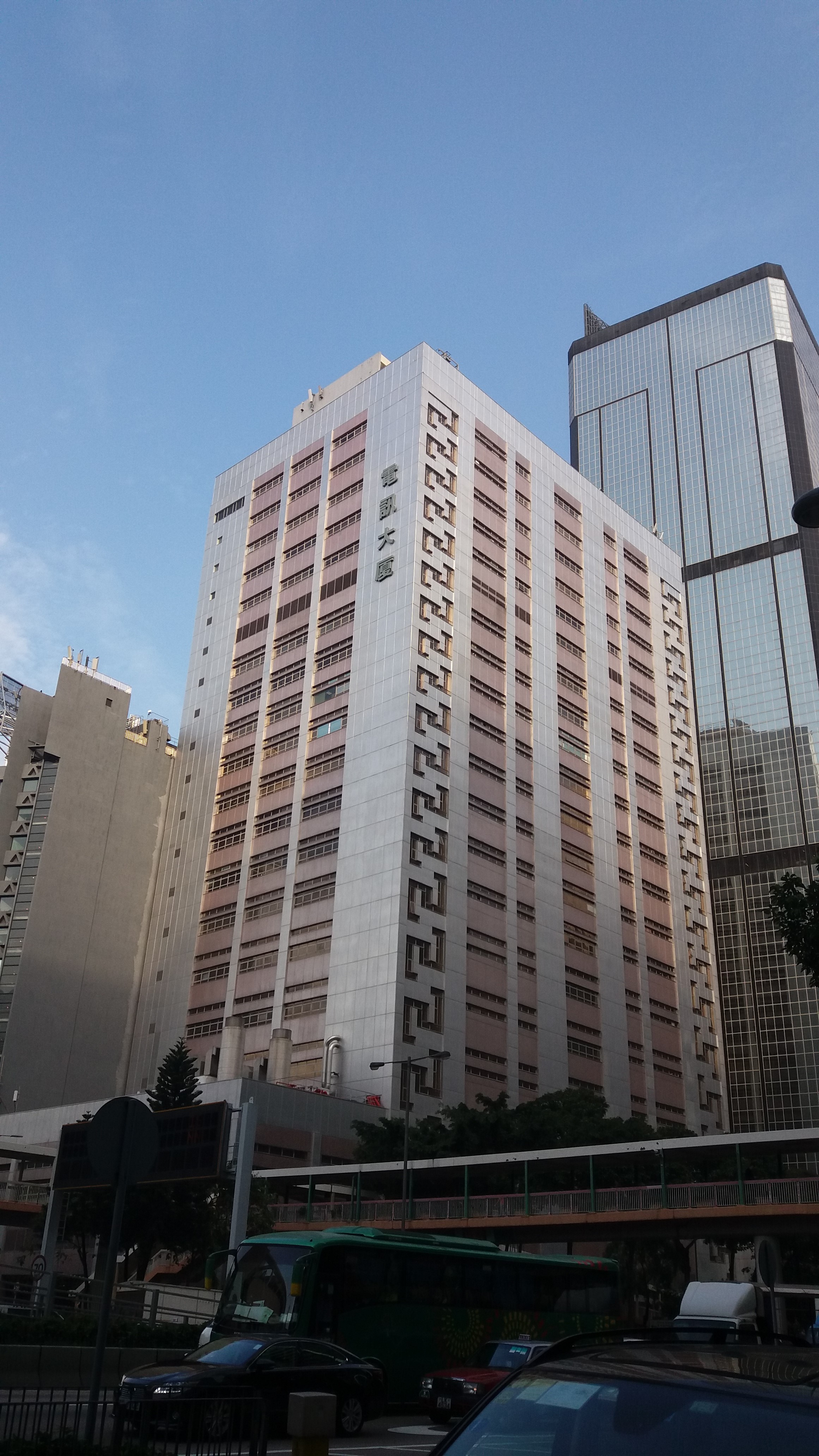 HK Telecom House in Wan Chai (Dec 2016)